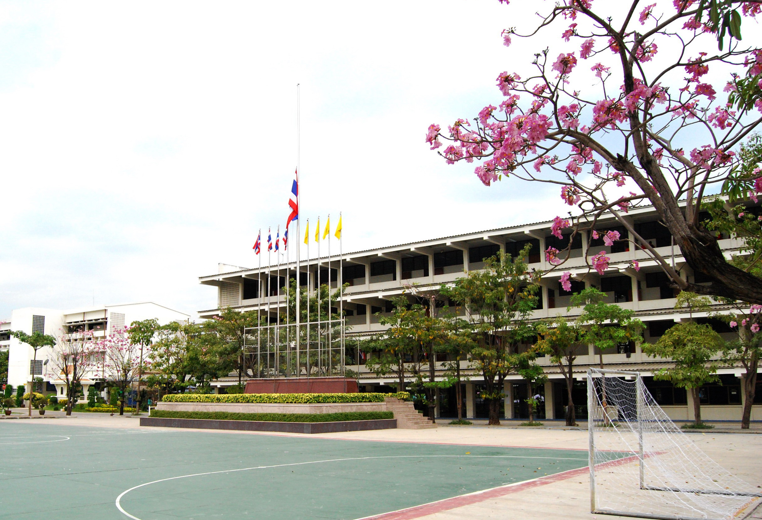 Rongrian Sai Phanya Rangsit, Amphoe Thanyaburi, Pathum Thani Province